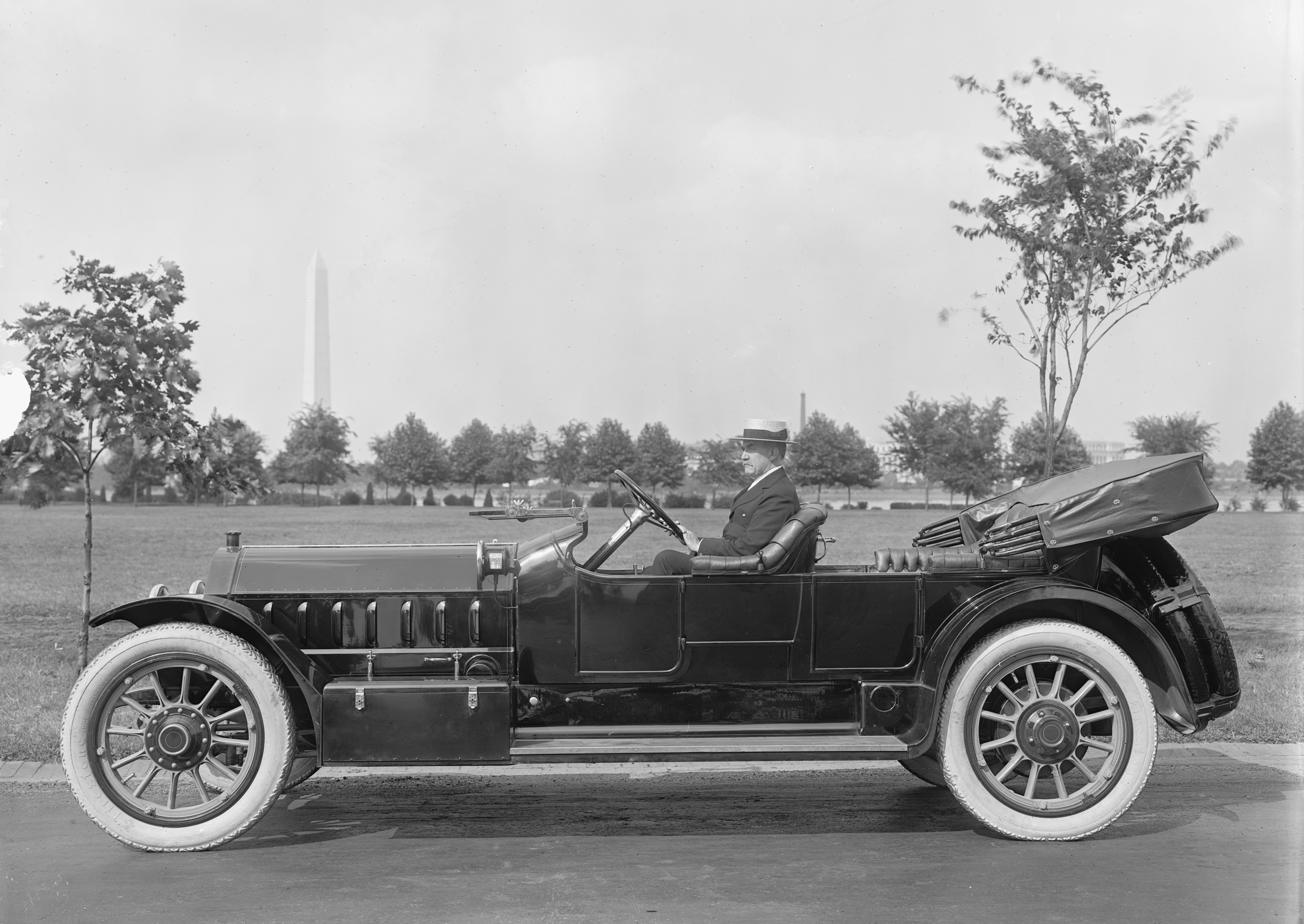 "MARMON MOTOR CAR CO." New Marmon automobile. Man at wheel in straw boater. In background Washington Monument is seen. A 1914 Marmon "48" seven-passenger touring car per discussion on